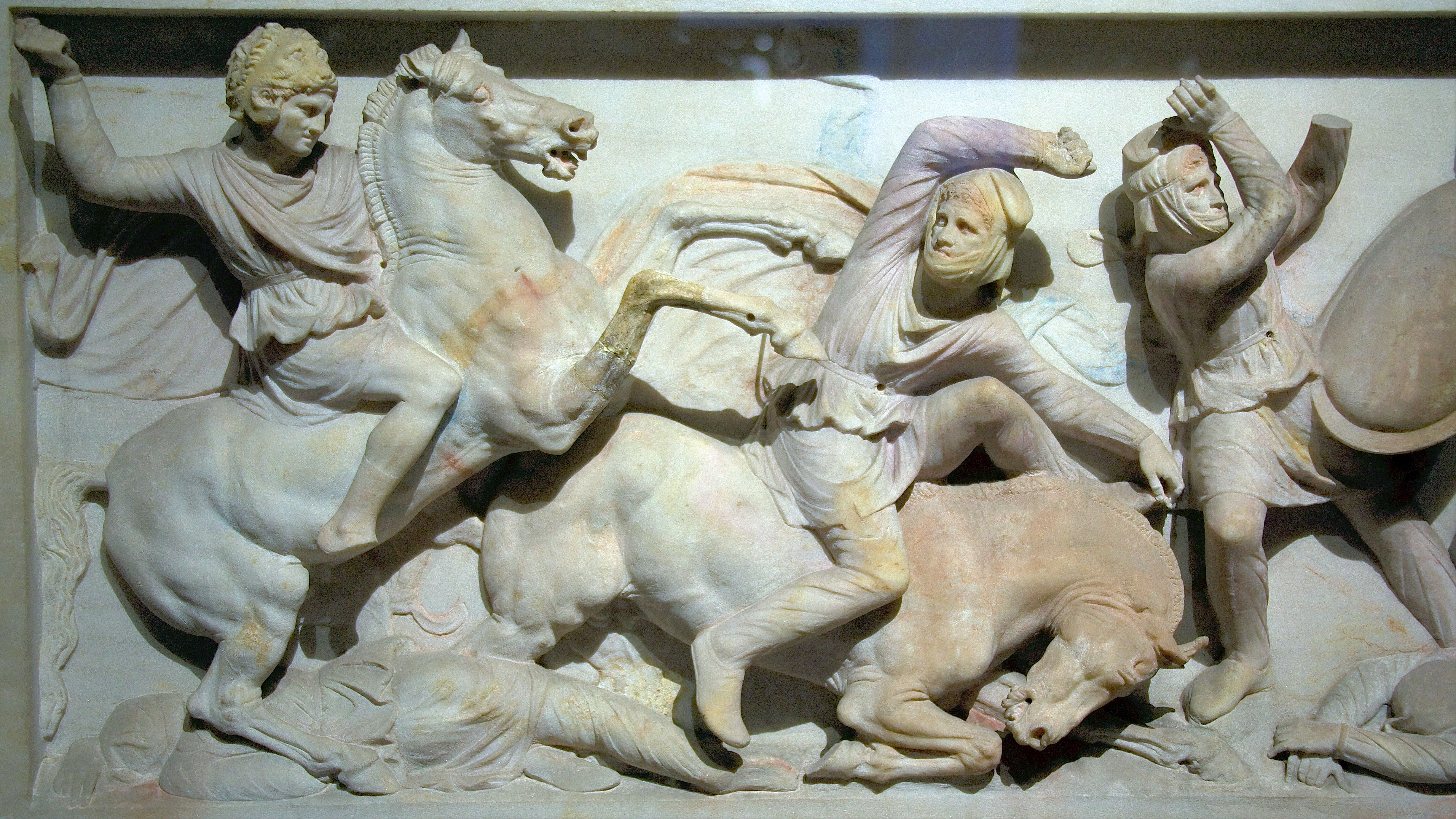 Alexander Sarcophagus, illustration showing Alexander in the battle of Issus (333 BC)